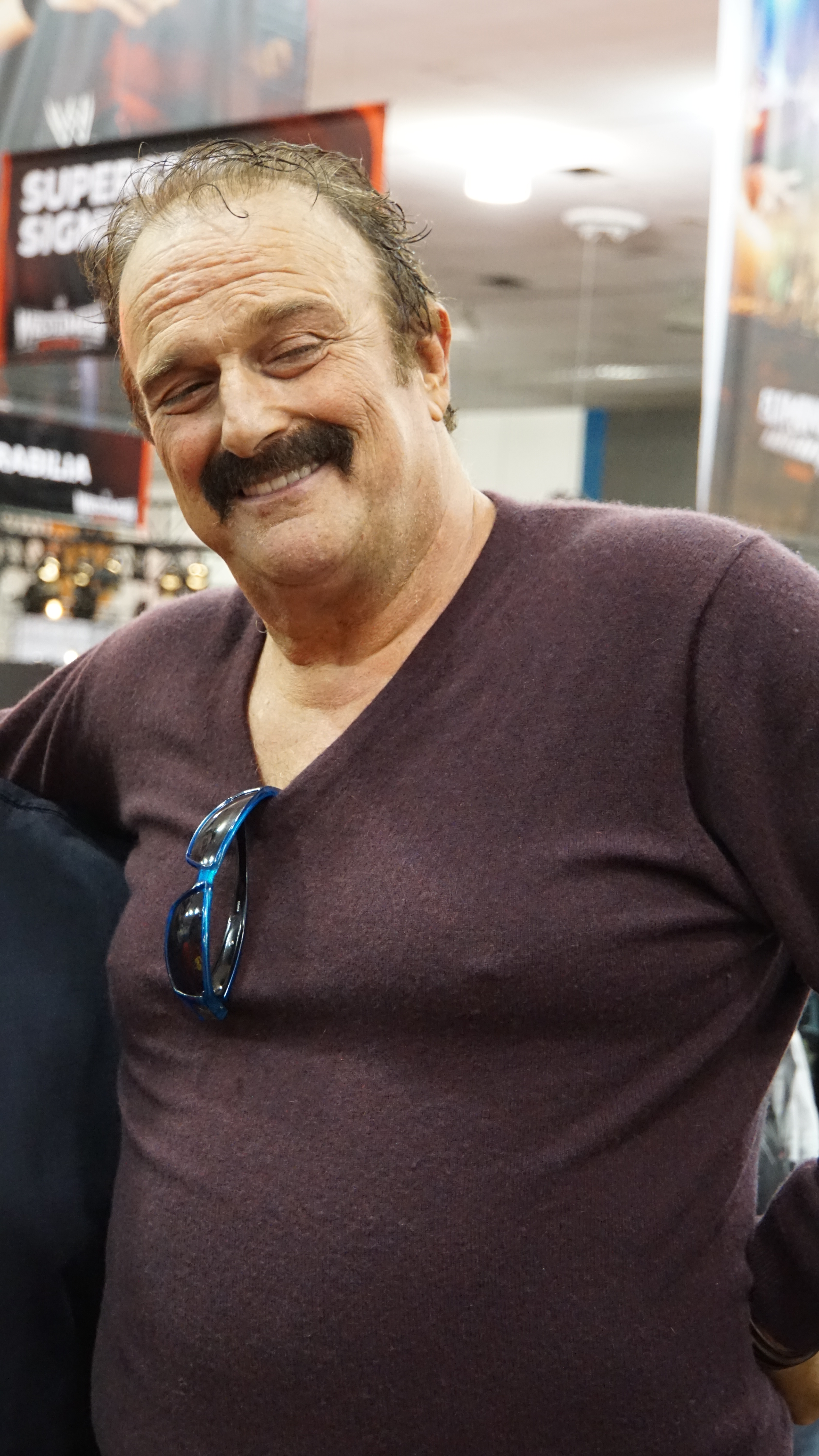 2015-03-26_21-29-35_ILCE-6000_DSC02562